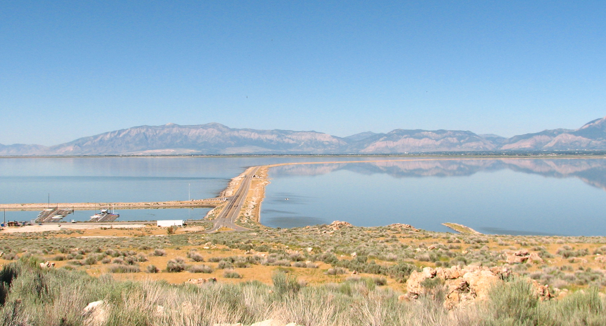 Author: Juozas Rimas